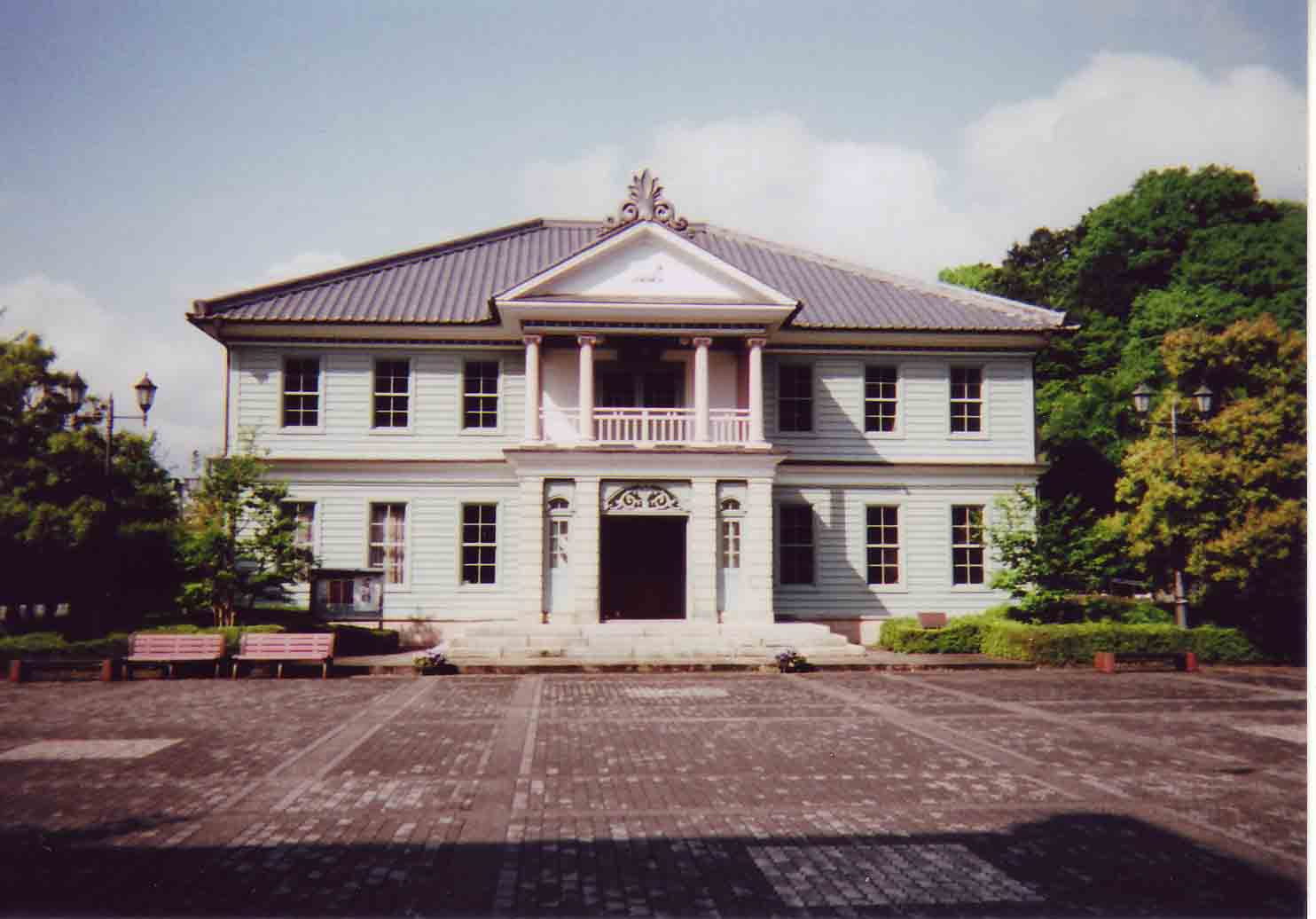 龍谷大学瀬田キャンパス樹心館。Jushinkan in Ryukoku Univercity Seta campus.